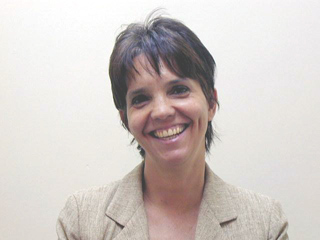 Argentine economist Mercedes Marcó del Pont, Congresswoman (2005-08) and Central Banker (from 2010).